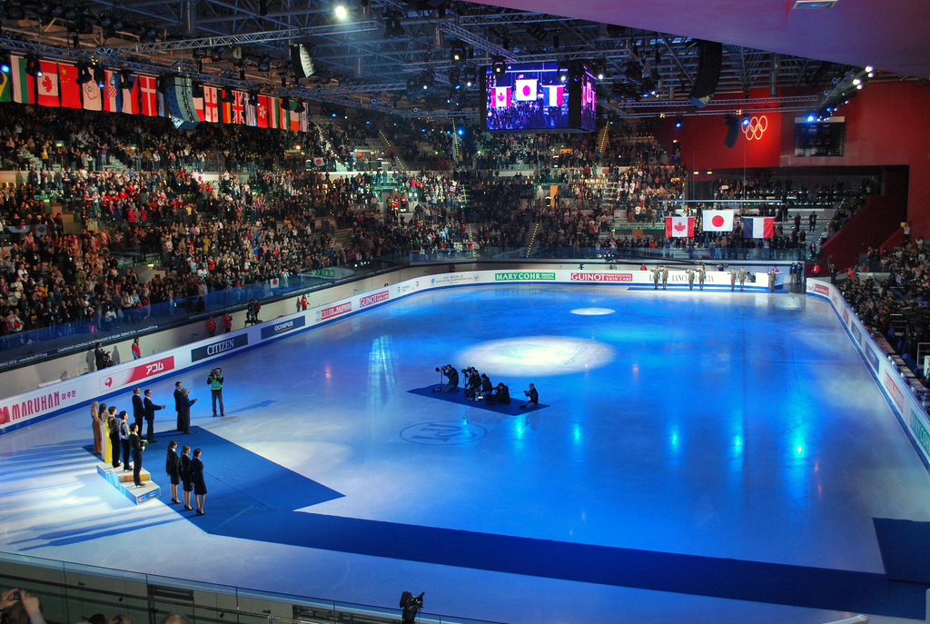 Men - Free Skating. 1) Daisuke TAKAHASHI (JPN); 2) Patrick CHAN (CAN); 3) Michal BREZINA (CZE).